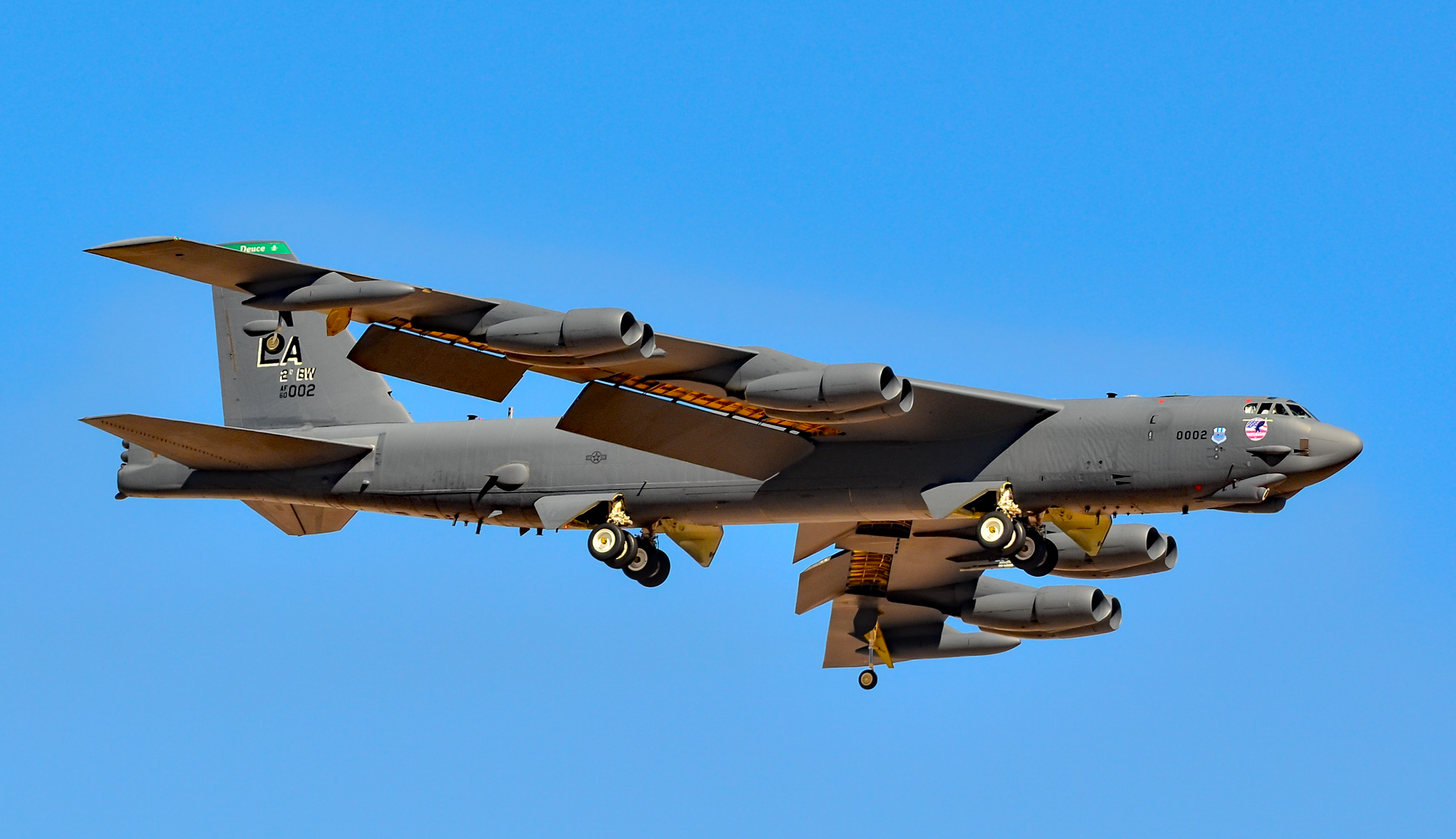 Barksdale Air Force Base Louisiana, USA Red Flag 16-3 Las Vegas - Nellis AFB (LSV / KLSV) TDelCoro July 19, 2016